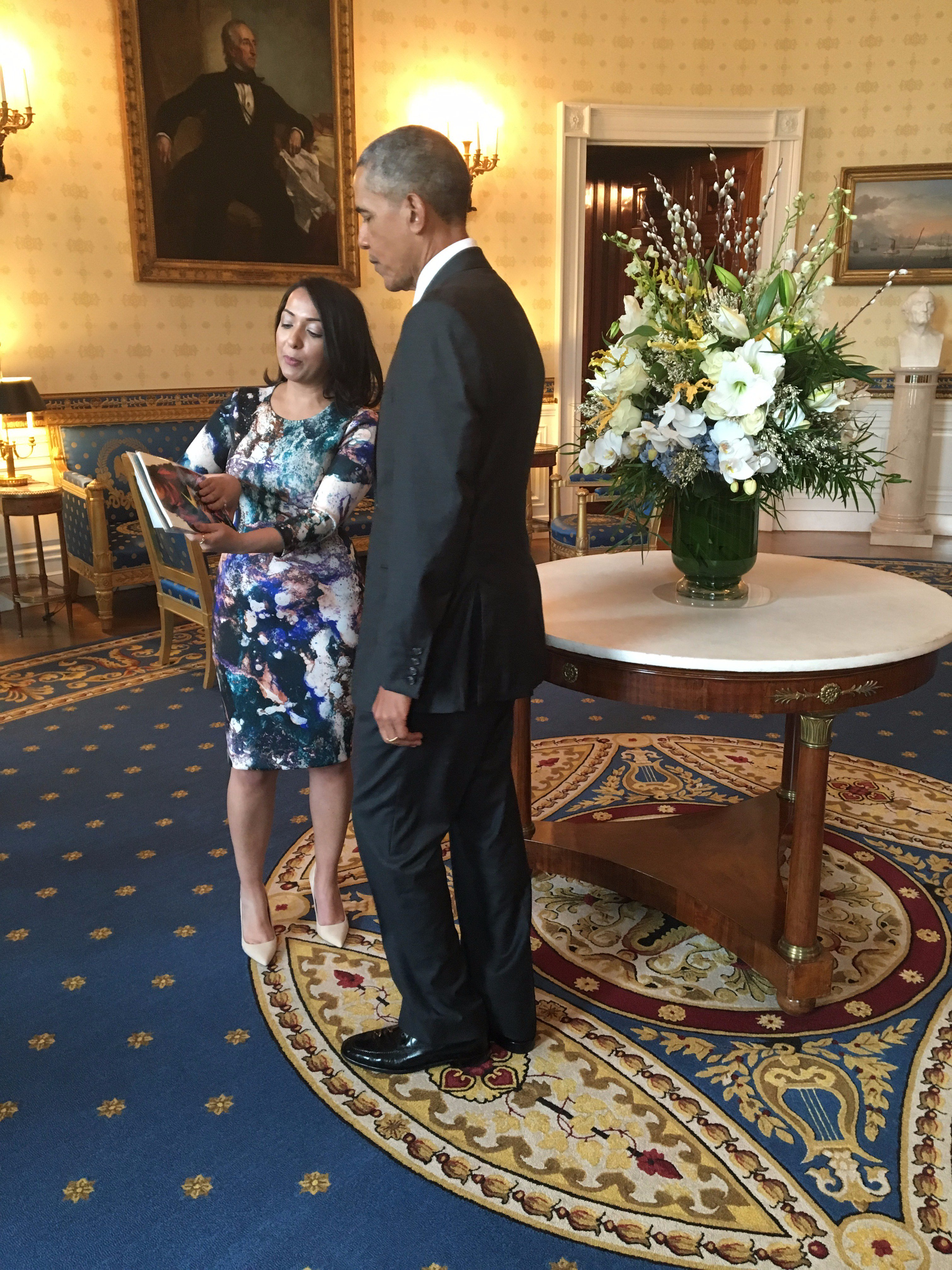 Sana Amanat of @Marvel introduces @POTUS at #WomensHistoryMonth Reception!